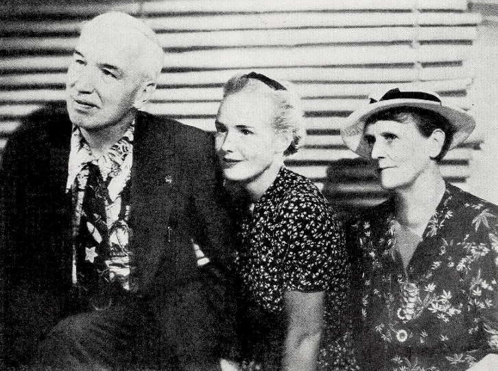 Frances Farmer with her mother and father on set of Escape from Yesterday, 1938